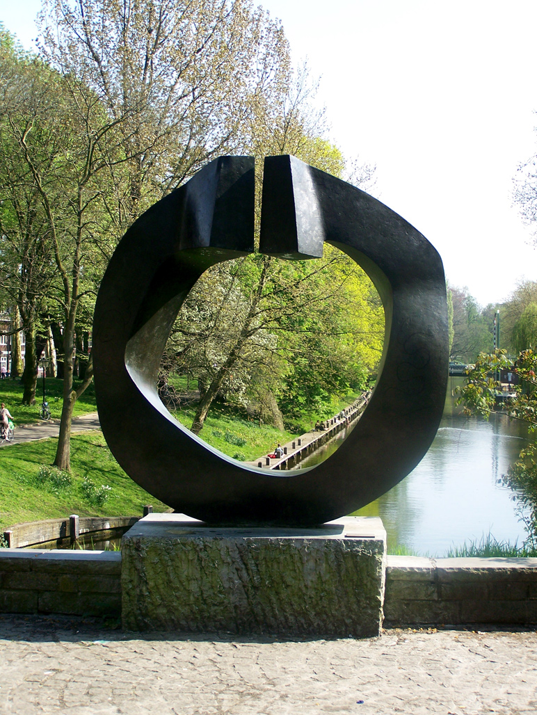 Statue Grand Astre (Large Star) made by André Ramseijer in 1966, placed in 1974 at the Geertebolwerk in Utrecht